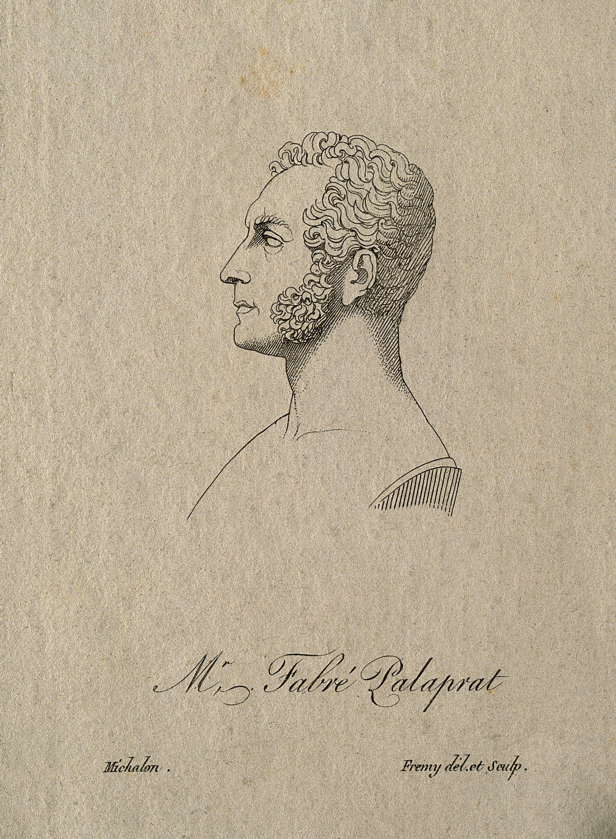 Bernard Raymond Fabré-Palaprat. Line engraving by J. N. M. Frémy, 1822, after himself. Iconographic Collections Keywords: portrait prints; engravings; Bernard-Raymond Fabré-Palaprat; Jacques-Noel-Marie Frémy